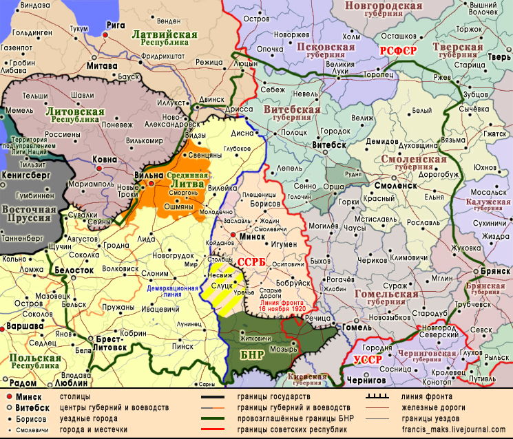 Map of Belarus in 1920 showing the campaign of general Bulakh-Balahovich